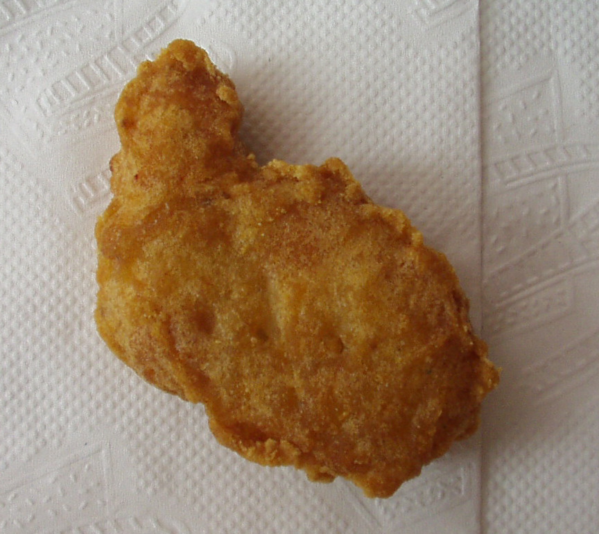 one chicken nugget, bought at McDonald's Germany. I made the image on 2005-09-11.